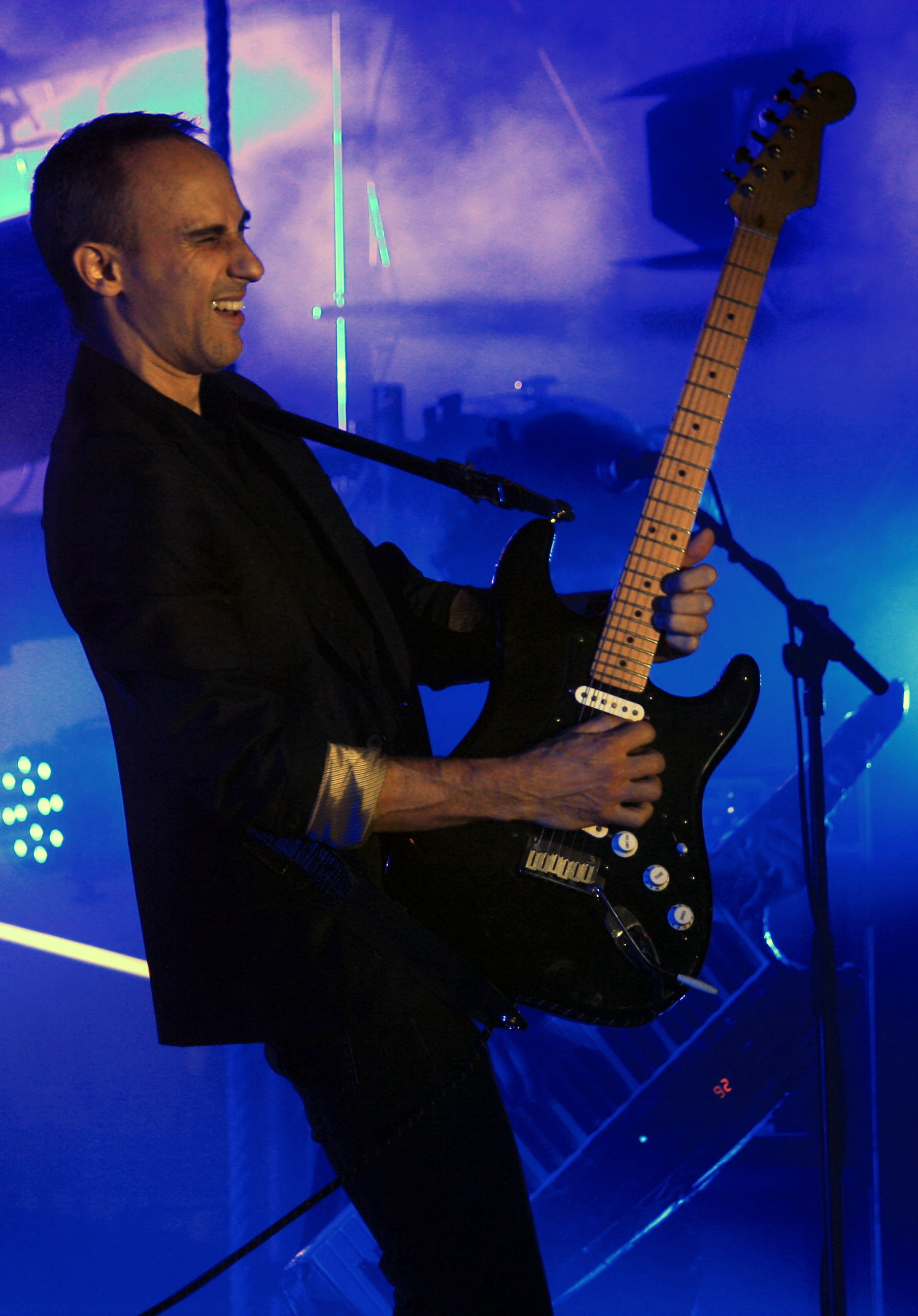 Assaf Amdursky.